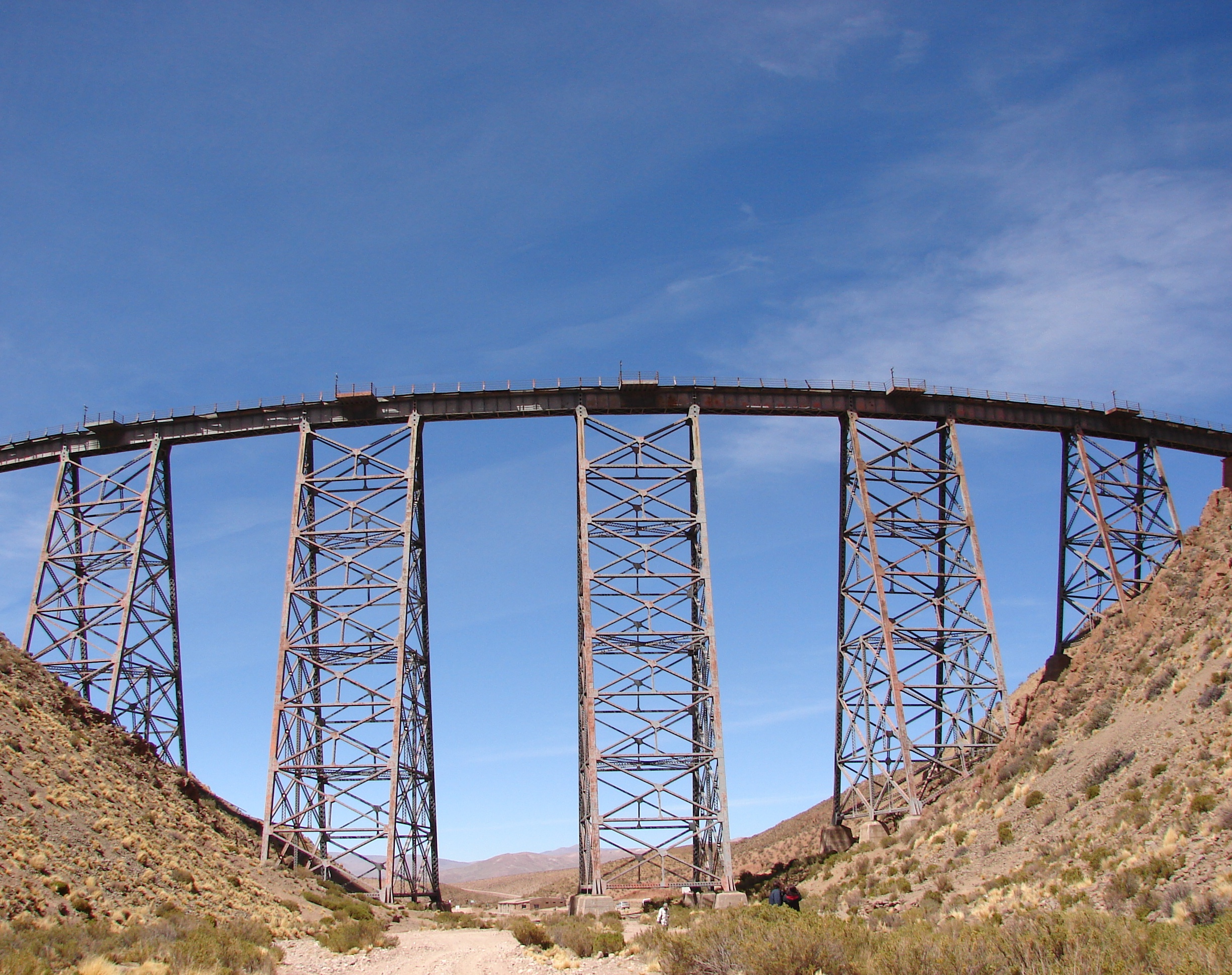 Viaduct "La Polvorilla," in Salta Province, Argentina